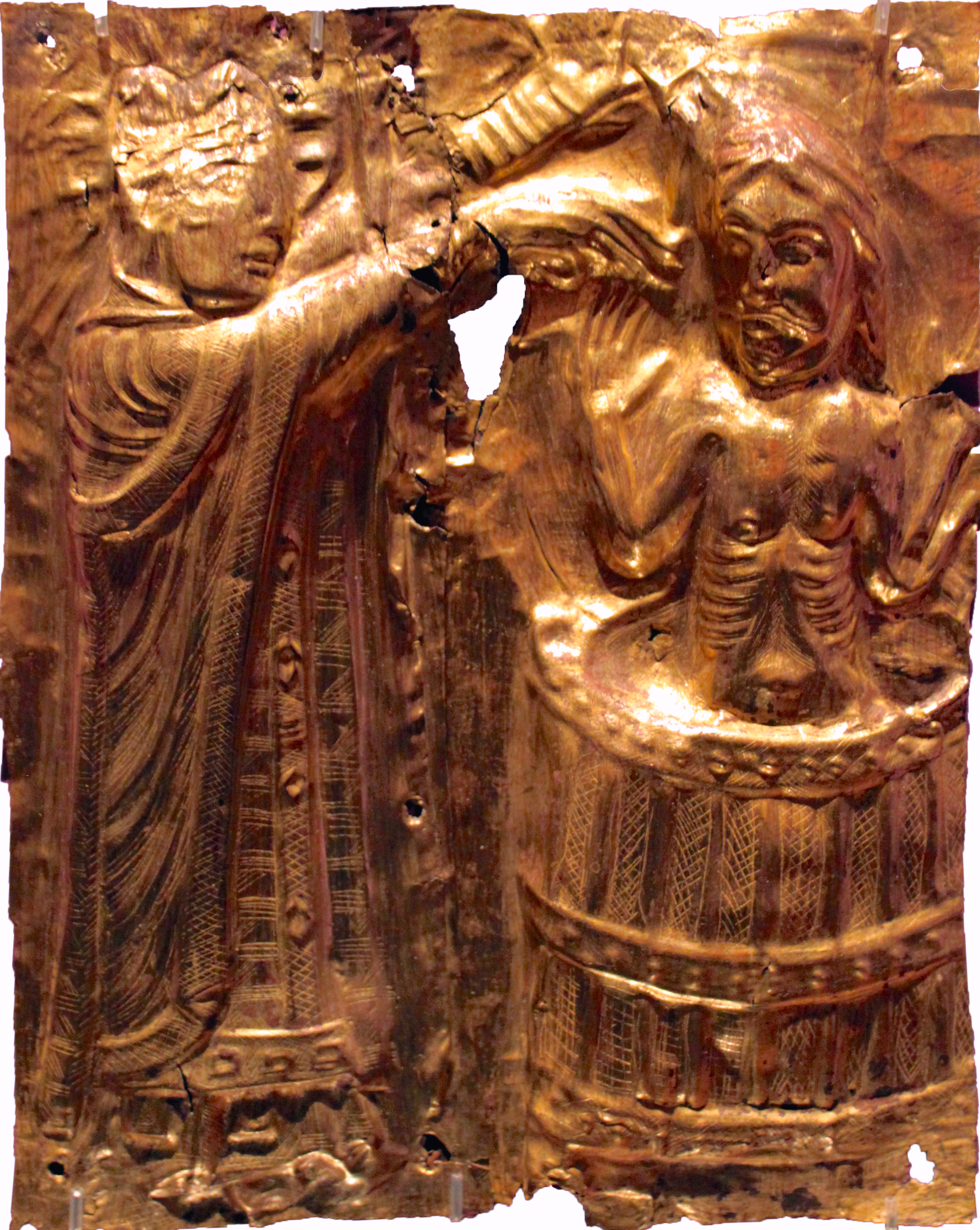 Harald Bluetooth being baptized by Bishop Poppo the missionary, probably ca. 960